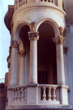 Neoclassical portal-balcony in Minya - Egypt.